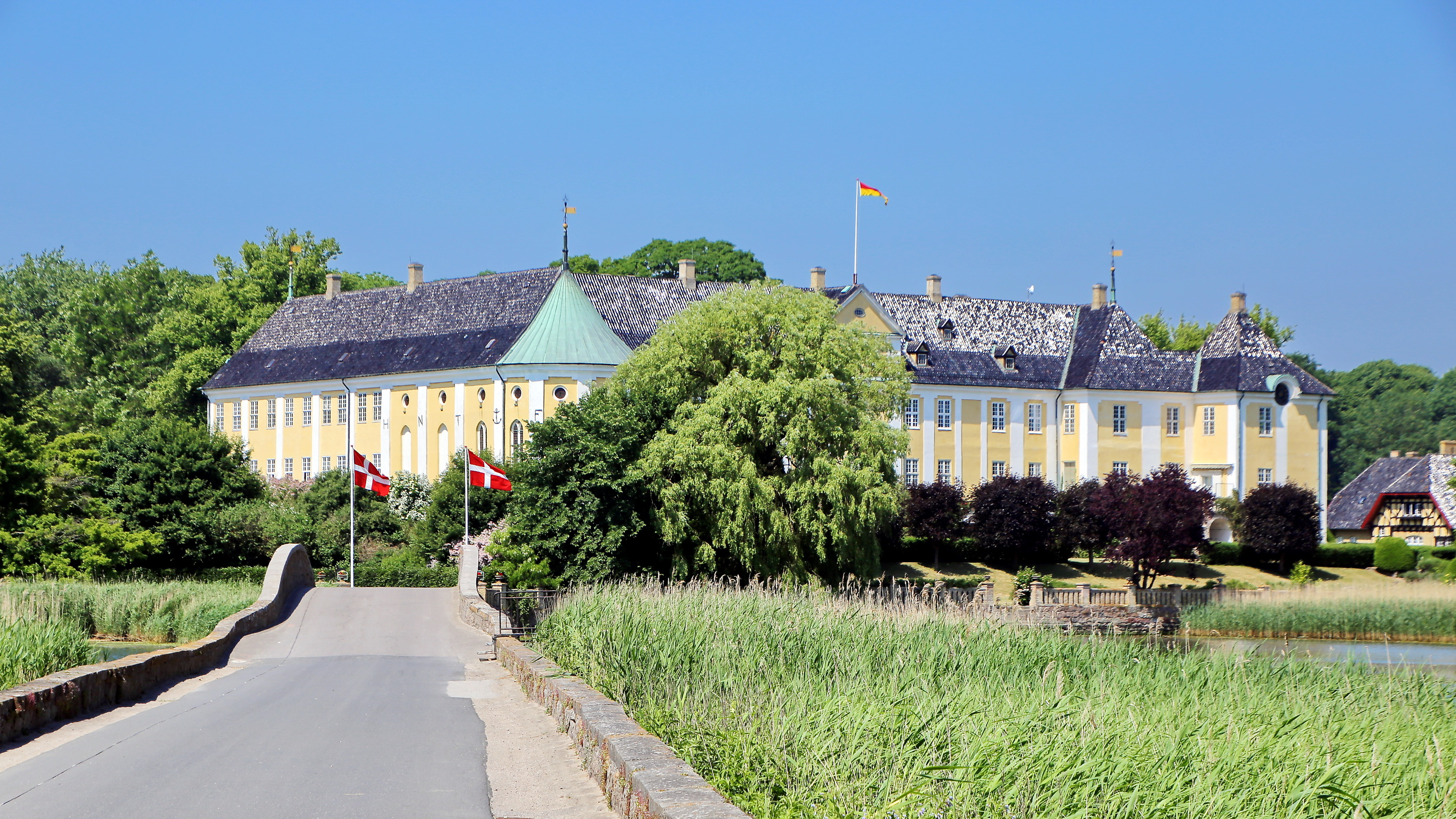 Gavnø Castle with only bridge to the island in the foreground